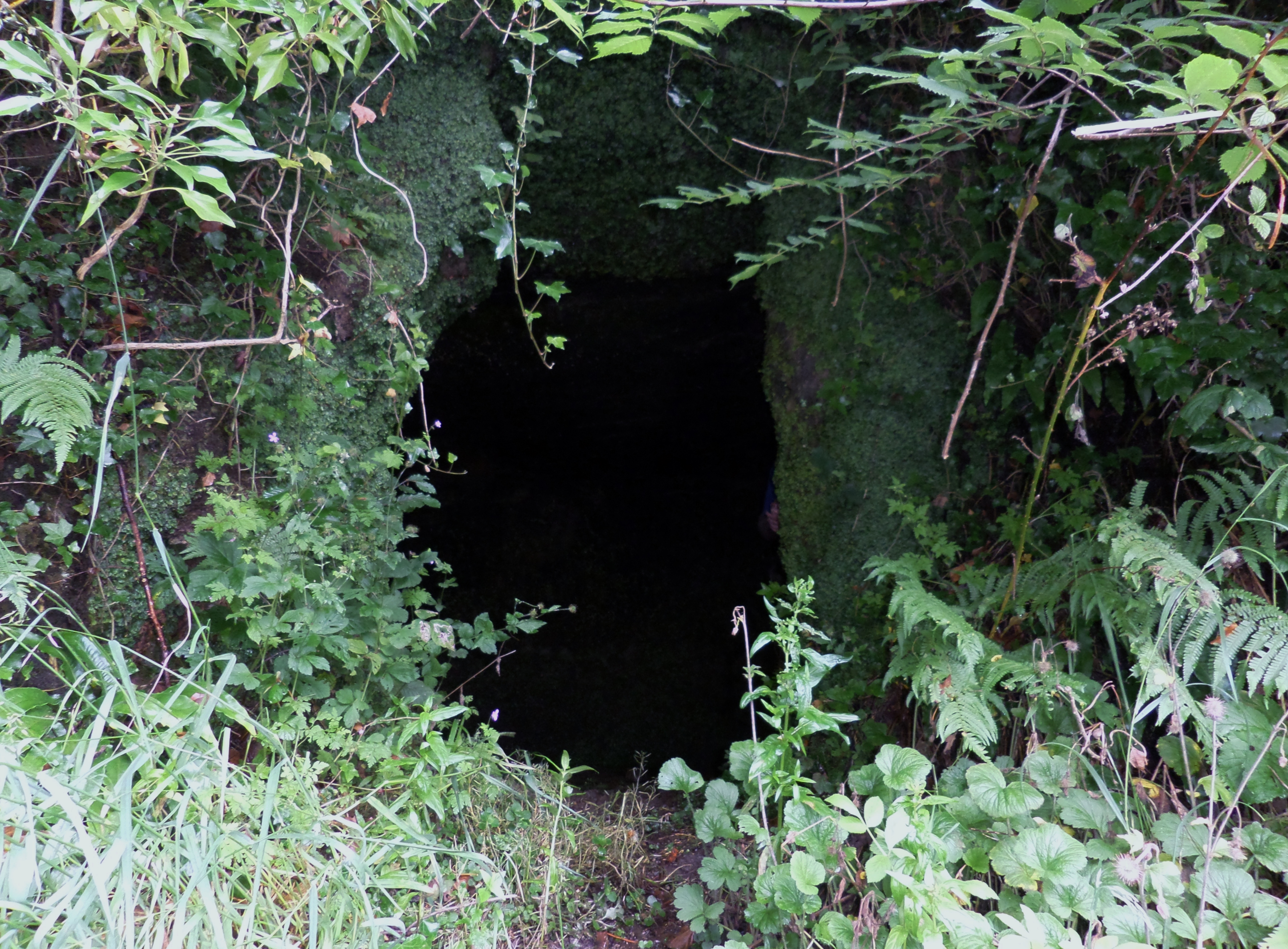 William Murdoch's Cave entrance, Bello Mill, Lugar, East Ayrshire, Scotland.